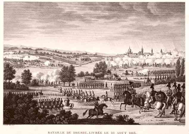 Battle of Dresden, August 26th 1813